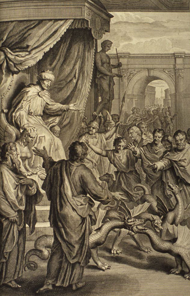 The rods of Moses and the Magicians turned into Serpents, as in Exodus 7:10-12: "And Moses and Aaron went in unto Pharaoh, and they did so as the Lord had commanded: and Aaron cast down his rod before Pharaoh, and before his servants, and it became a serpent. Then Pharaoh also called the wise men and the sorcerers: now the magicians of Egypt, they also did in like manner with their enchantments. For they cast down every man his rod, and they became serpents: but Aaron's rod swallowed up their rods."; illustration from the 1728 Figures de la Bible; illustrated by Gerard Hoet (1648–1733) and others, and published by P. de Hondt in The Hague; image courtesy Bizzell Bible Collection, University of Oklahoma Libraries